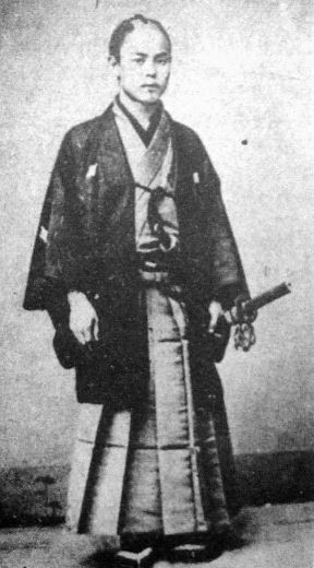 a Japanese man 福地源一郎 (Genichiro Fukuchi)